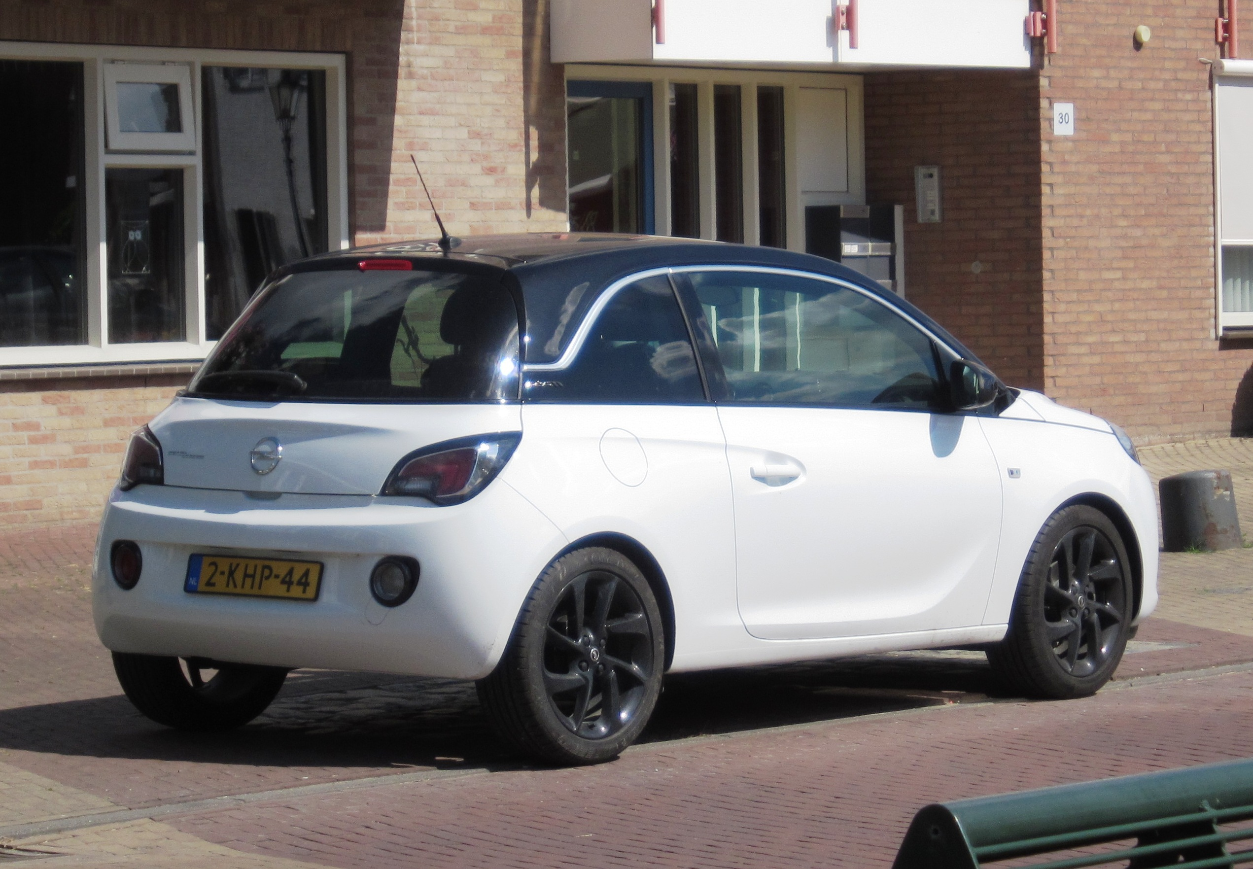 Opel Adam in Aardenburg, NL Registered April 2013 Engine 1229cc / 4-cylinders / 51kW